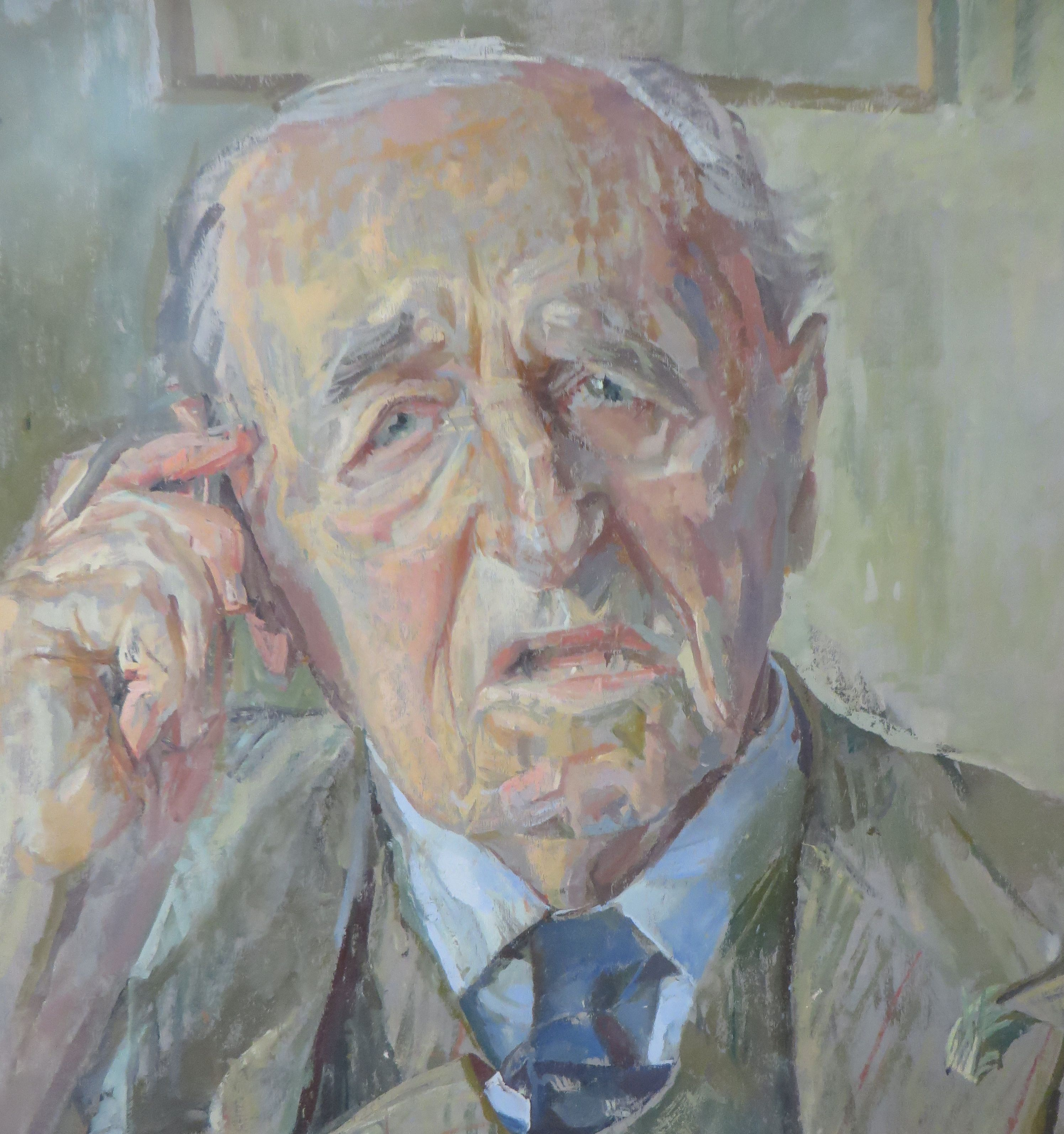 Detail of a portrait of George Cawkwell at University College, Oxford, England.